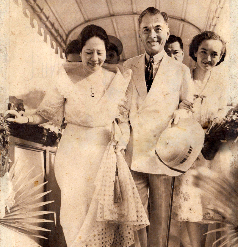 July 17, 1938: President Manuel L. Quezon, with his First Lady Aurora Aragon and daughter Maria Aurora “Baby” Quezon, returning to the Philippines from a trip to Japan and China